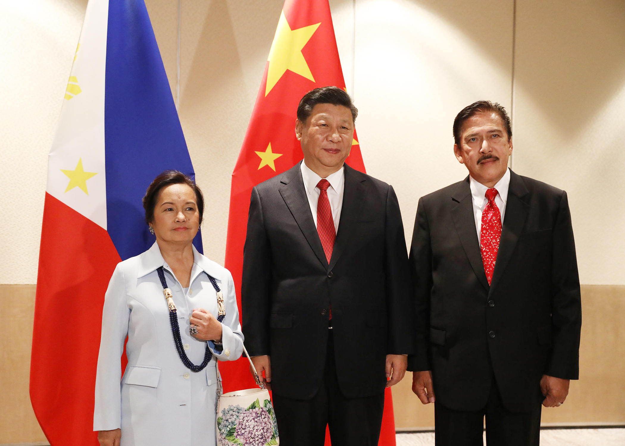 President Xi Jinping of the People's Republic of China (center) pose with Philippine Senate President Vicente Sotto III (right) and House Speaker Gloria Macapagal Arroyo (left) during the joint call of the Senate and House of Representatives at the Shangri-La at the Fort in Bonifacio Global City, Taguig on Wednesday (November 21, 2018).